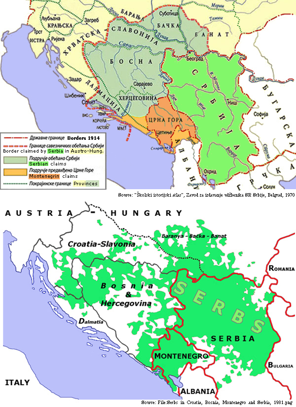 Map of the "Greater Serbia" claims in WWI and of the Serbs, since the "Skolski istorijski atlas", Zavod za izdavanje udzhbenika SR Srbije, Beograd 1970 (up) and in Croatia, Bosnia, Montenegro and Serbia, 1981.png (down).